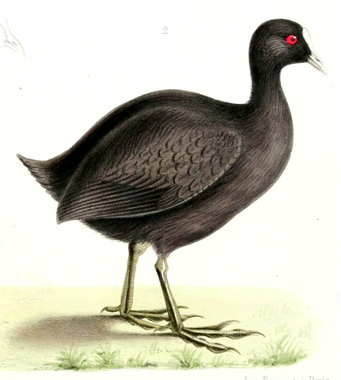 Restoration of a Mascarene Coot, compared with a Red-knobbed Coot and an Eurasian Coot, in Recherches sur la faune ornithologique éteinte des iles Mascareignes et de Madagascar, Alphonse Milne-Edwards